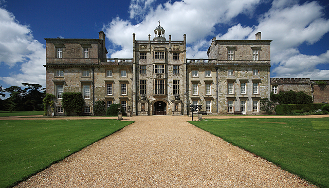 Wilton House — East Facade (2)